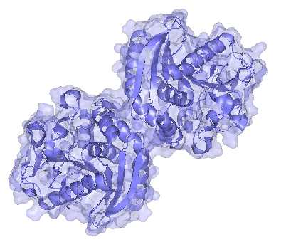 AnFAEA Enzyme structure